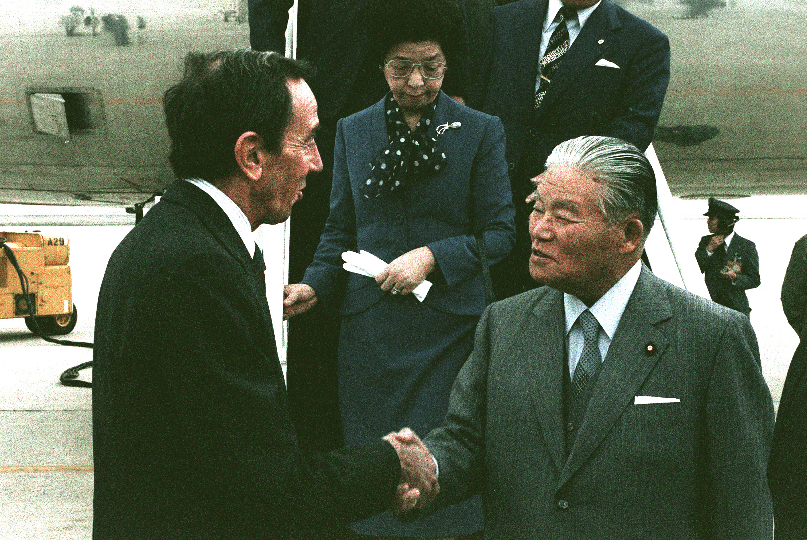 Japanese Prime Minister Masayoshi Ōhira (大平正芳, 1910–80, in office 1978–80) is welcomed upon his arrival in the United States for a visit at Andrews Air Force Base. Behind Ōhira is his wife, Shigeko.